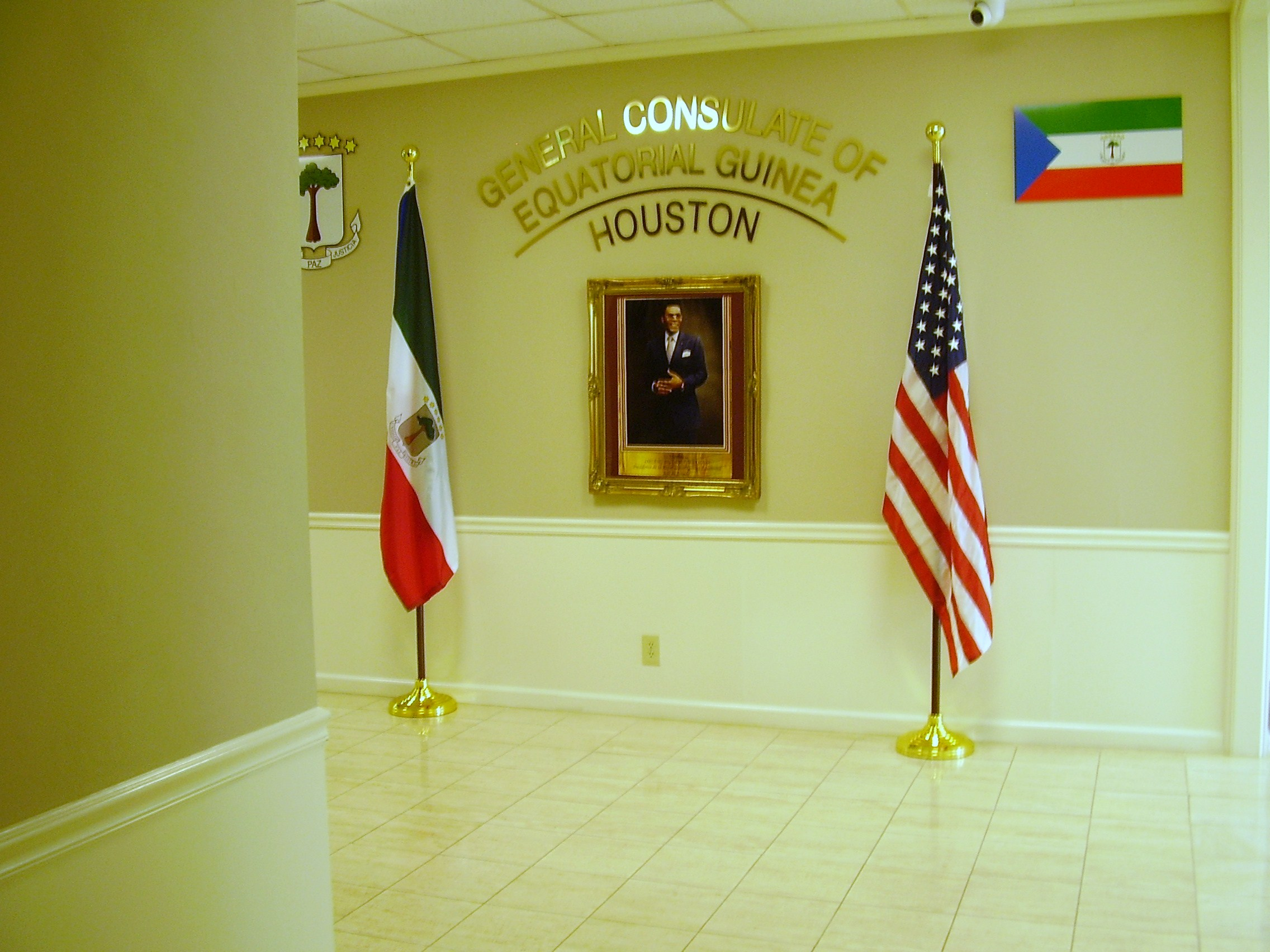 Consulate-General of Equatorial Guinea in Houston on the third floor of 6401 Southwest Freeway